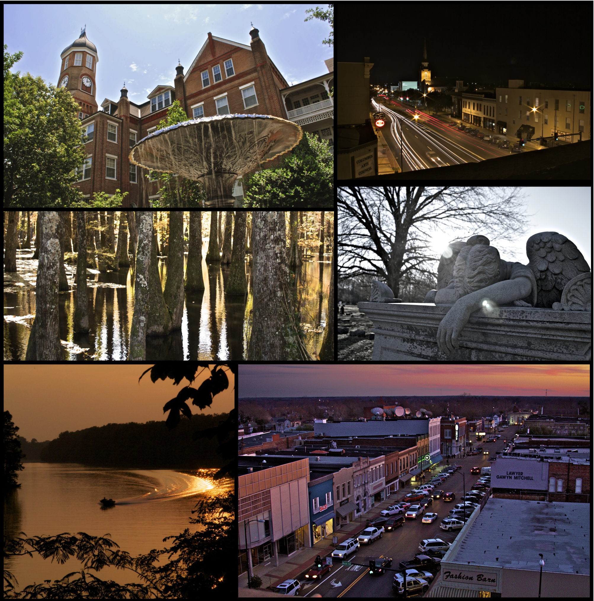 Compilation of images from Columbus